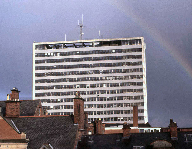 Former Churchill House, Belfast. When built for the old Post Office Telephones, Churchill House was Belfast's tallest building. It was demolished in 2004 to make way for the Victoria Square development 421827. The view is from Callender Street.